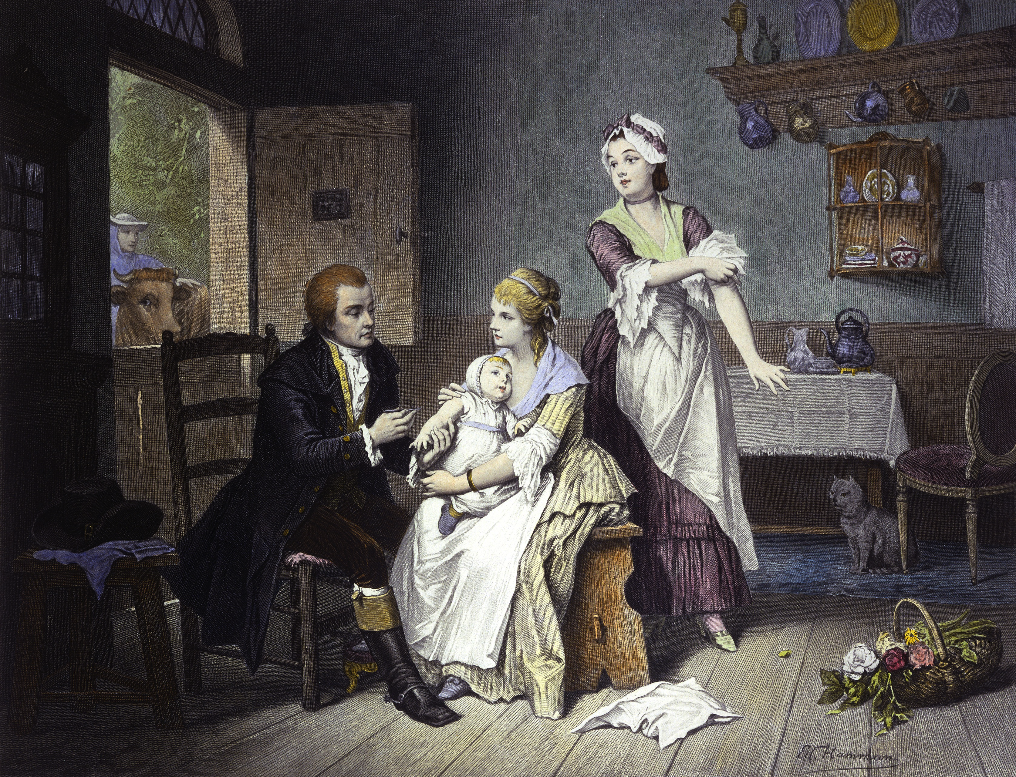 Edward Jenner vaccinating his young child, held by Mrs Jenner; a maid rolls up her sleeve, a man stands outside holding a cow. Coloured engraving by C. Manigaud after E Hamman. Coloured engraving late 19th century? By: E. J. C. Hamman after: C. Manigaud